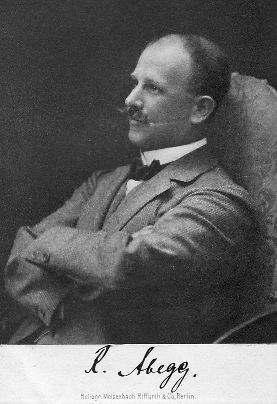 Richard Abegg